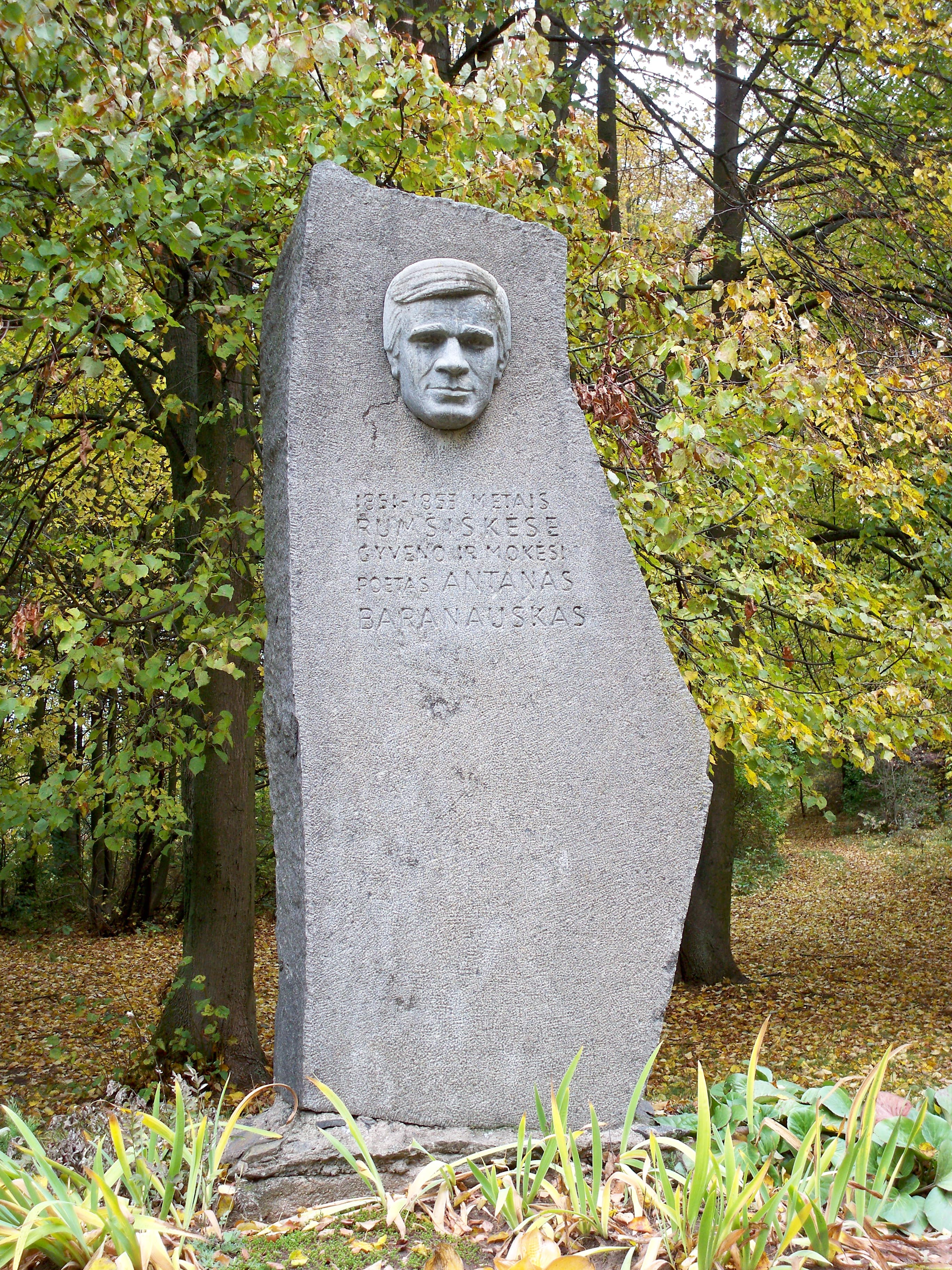 Baranauskas statue, Rumšiškės